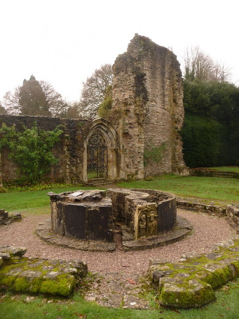 Much Wenlock: priory latrines Towards the south end of the site of 1627207, we see the latrines where the monks would have taken their wash.